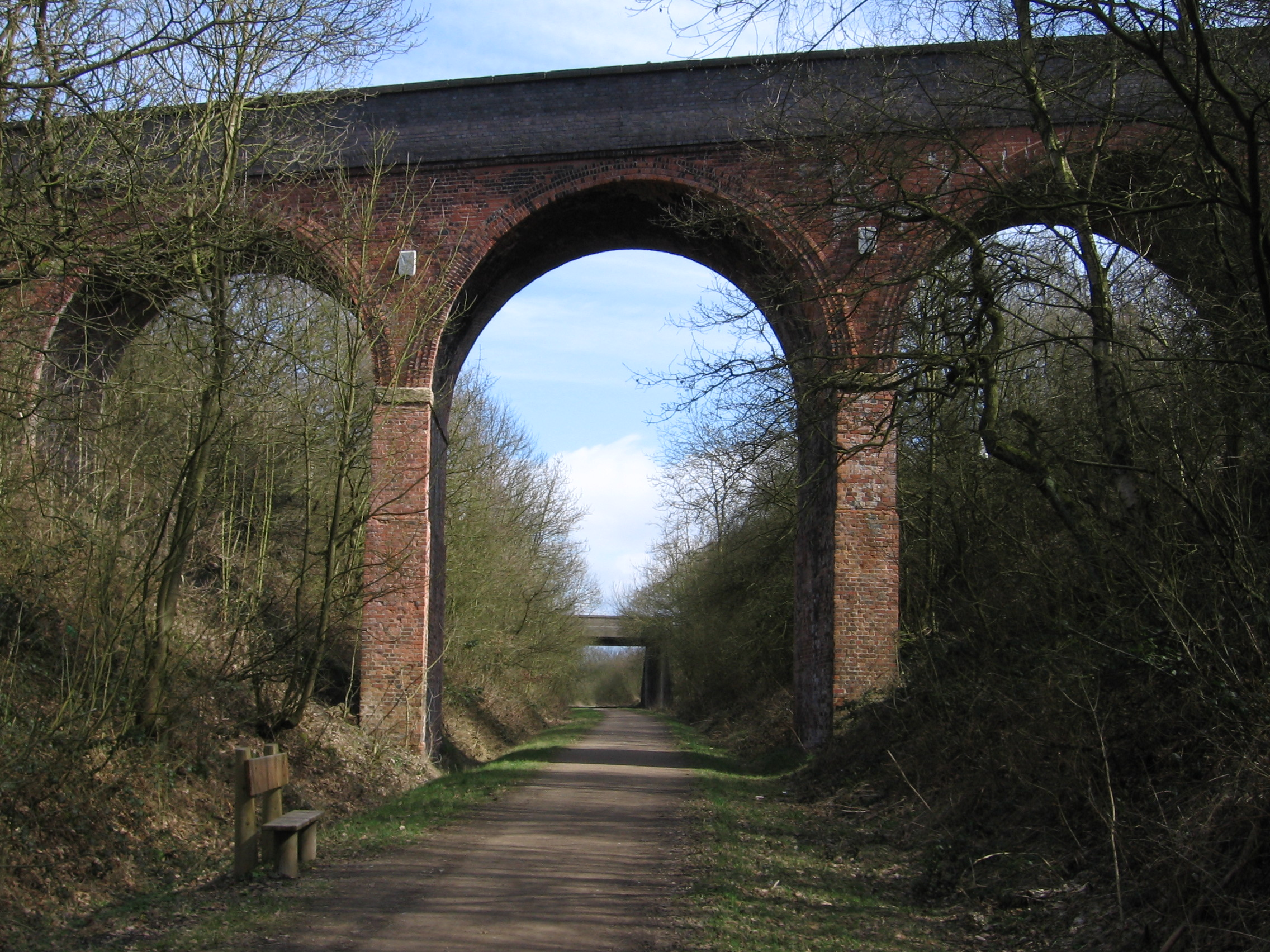 Newton - Viaduct